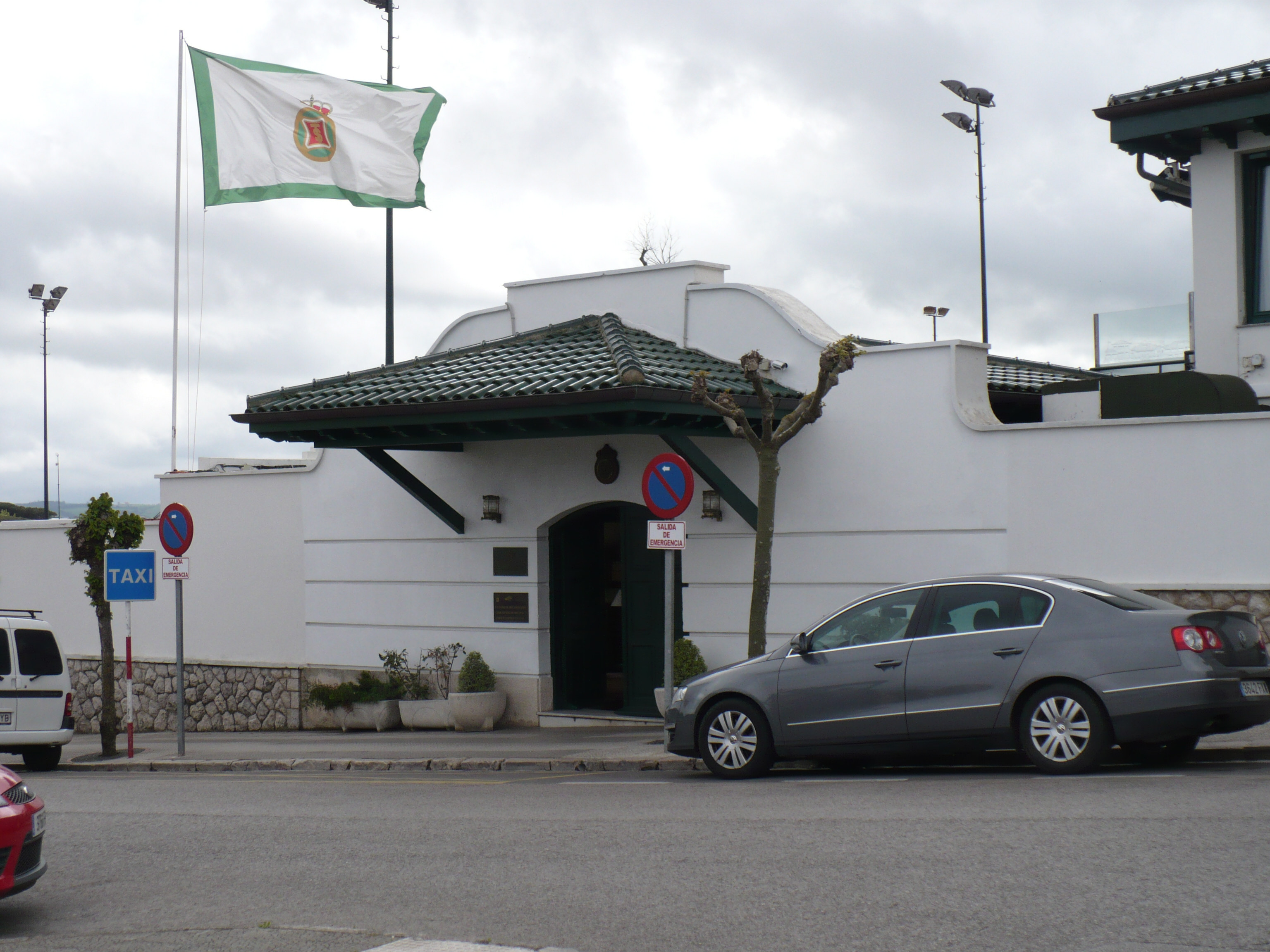 Main entrance to the Real Sociedad de Tenis La Magdalena / Royal Tennis Society La Magdalena (Santander)